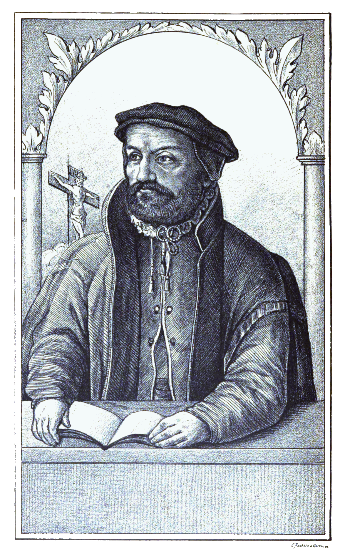 Stjepan Konzul Istrijanin (1521-1579), Croatian theologian and translator